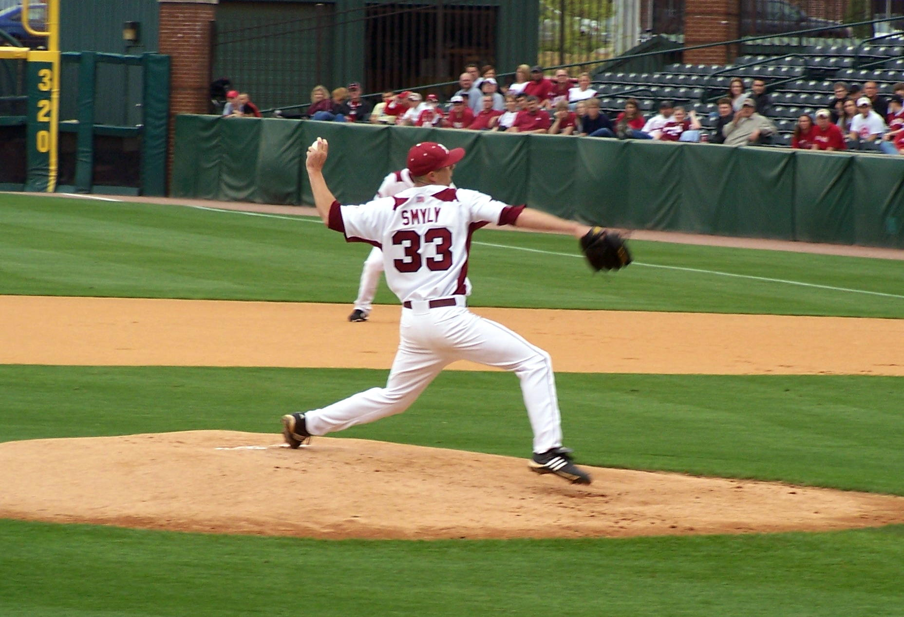 Drew Smyly pitching for the 2010 Arkansas Razorbacks in Baum Stadium, Fayetteville, Arkansas, USA.